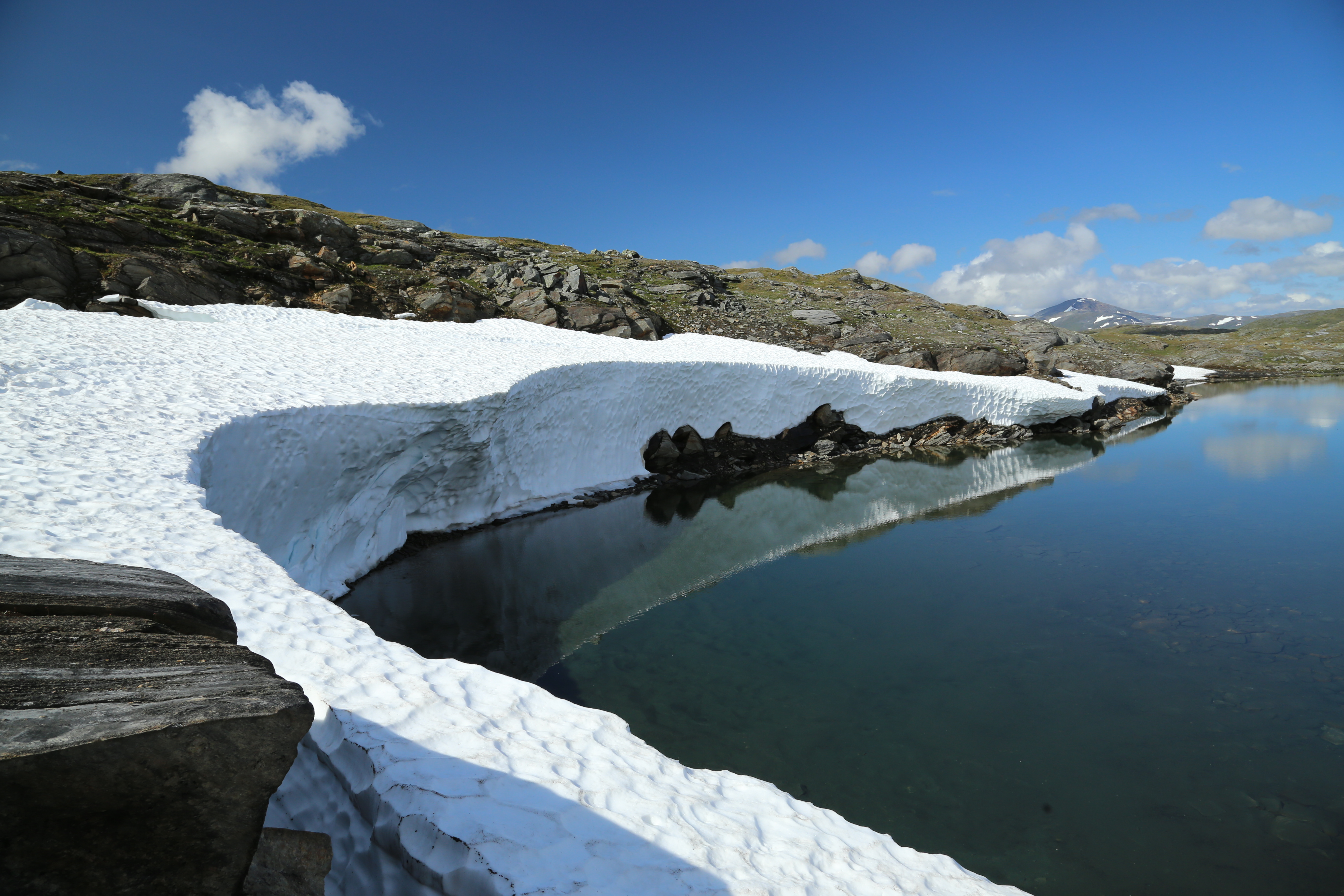 Padjelantaleden, Nordkalottleden and Áhkká massif in Sweden, in July or August 2014. This photograph is part of a series, which can be found in full in Category:Padjelantaleden and Nordkalottleden Trip in 2014. Some files have GPS coordinates associated, for others, the following overview might be helpful: Click here for approximate location at each date 25.7. Kvikkjokk and Njunjes 26.7. Njunjes and Tarrekaise 27.7. Tarrekaise and Sammerlappa, before the entrance to Padjelanta National Park 28.7. Tarraluoppal 29.7. Tuattar 30.7. Staloluokta 31.7. Arasluokta 1.8. Låddejåkkå 2.8. Kutjaure (Nordkalottleden) 3.8 + 4.8. Akkajaure, Akka mountains (Nordkalottleden and Padjelantaleden)